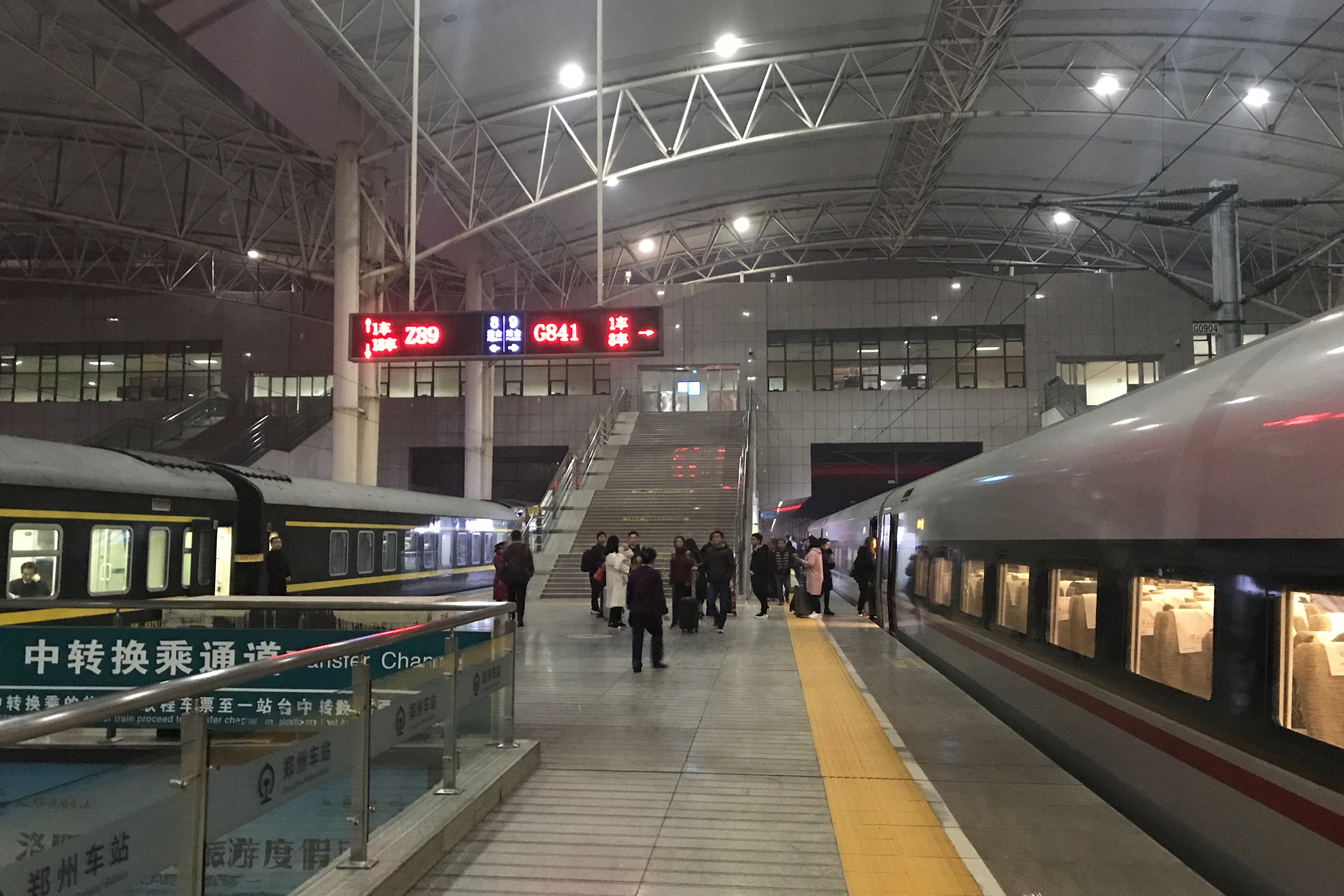 Train Z89 at Platform 8 and Train G841 at Platform 9 of Zhengzhou Railway Station